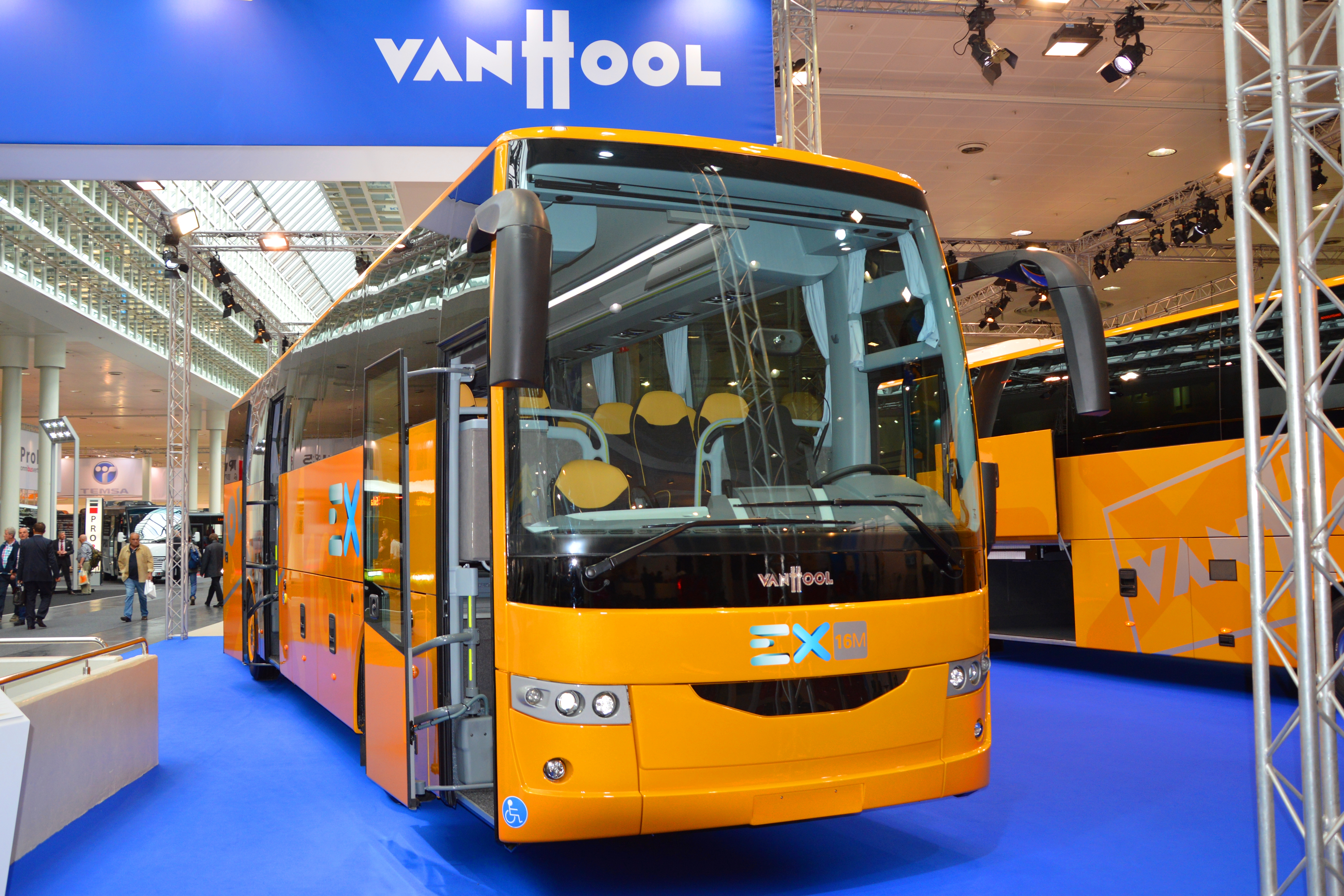 Van Hool Coach EX 16 M. Engine: Paccar MX11 (Euro 6). Power: 290 kw (394 hp). Length: 13.26 m. Wheelbase: 6.79 m. Seats: 59+1+1